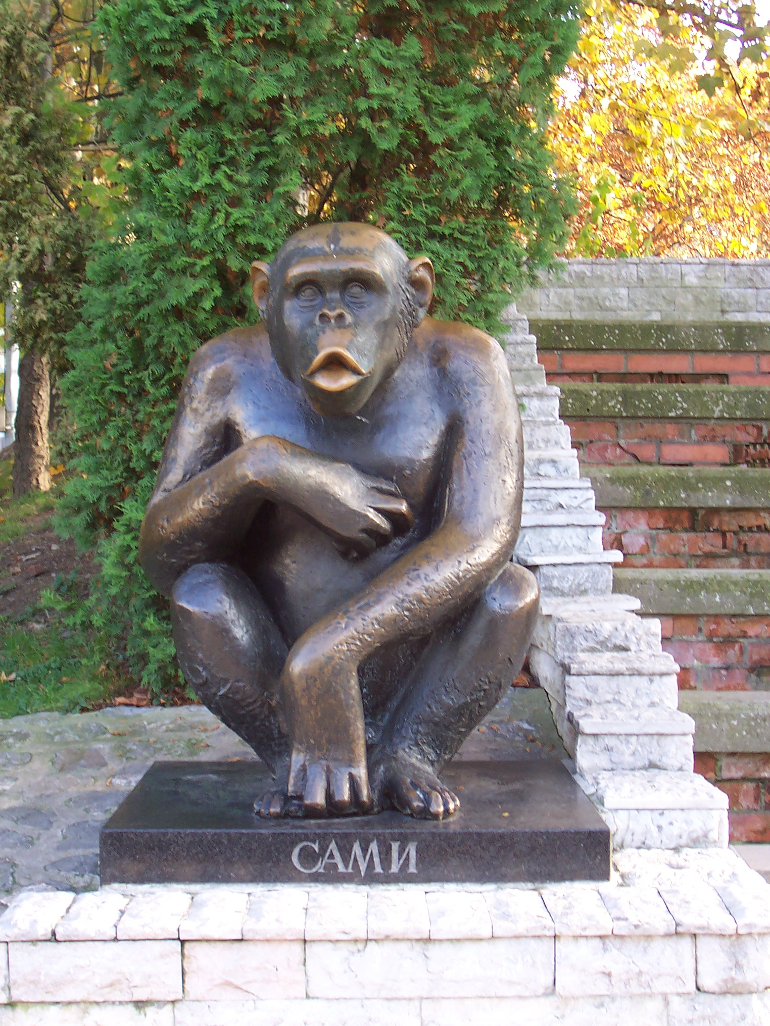 Monument to Sami, famous chimpanzee of Belgrade Zoo.